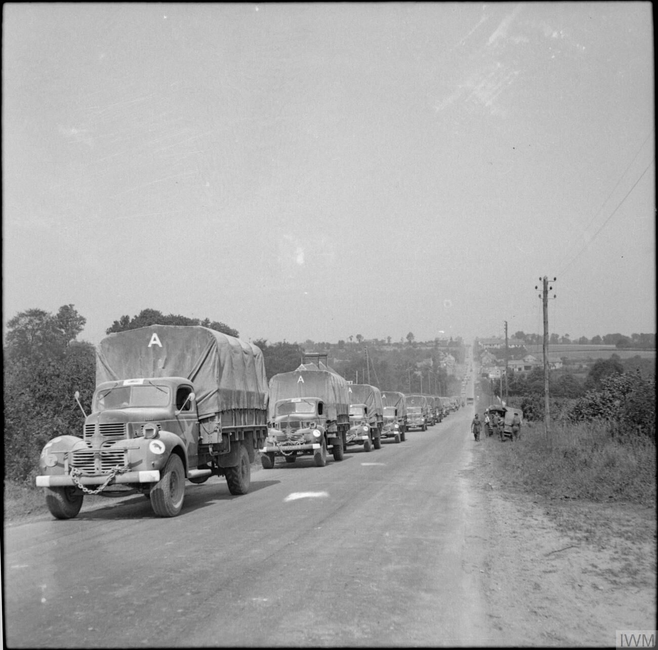 The British Army in Normandy 1944 A convoy of supply lorries moves up through the town of Jurques, 6 August 1944.